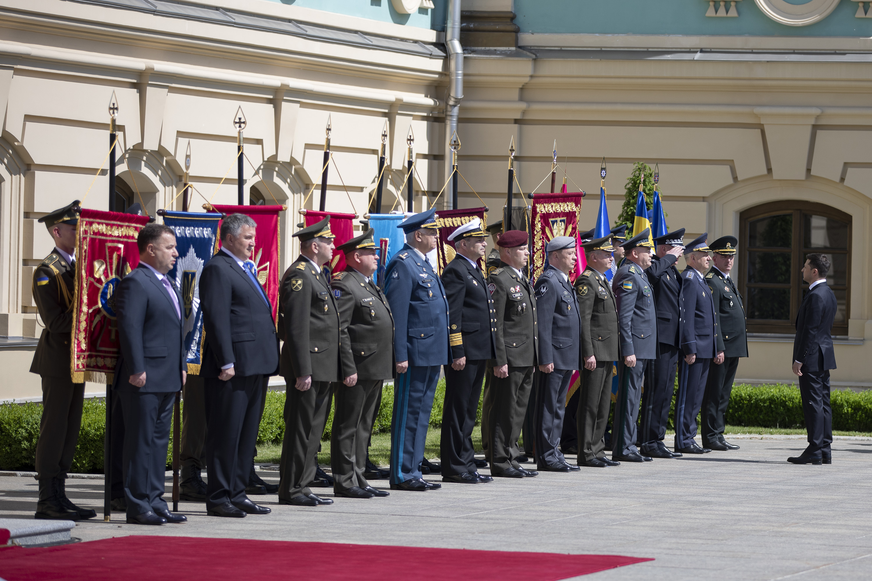 Volodymyr Zelensky presidential inauguration, 20th May 2019